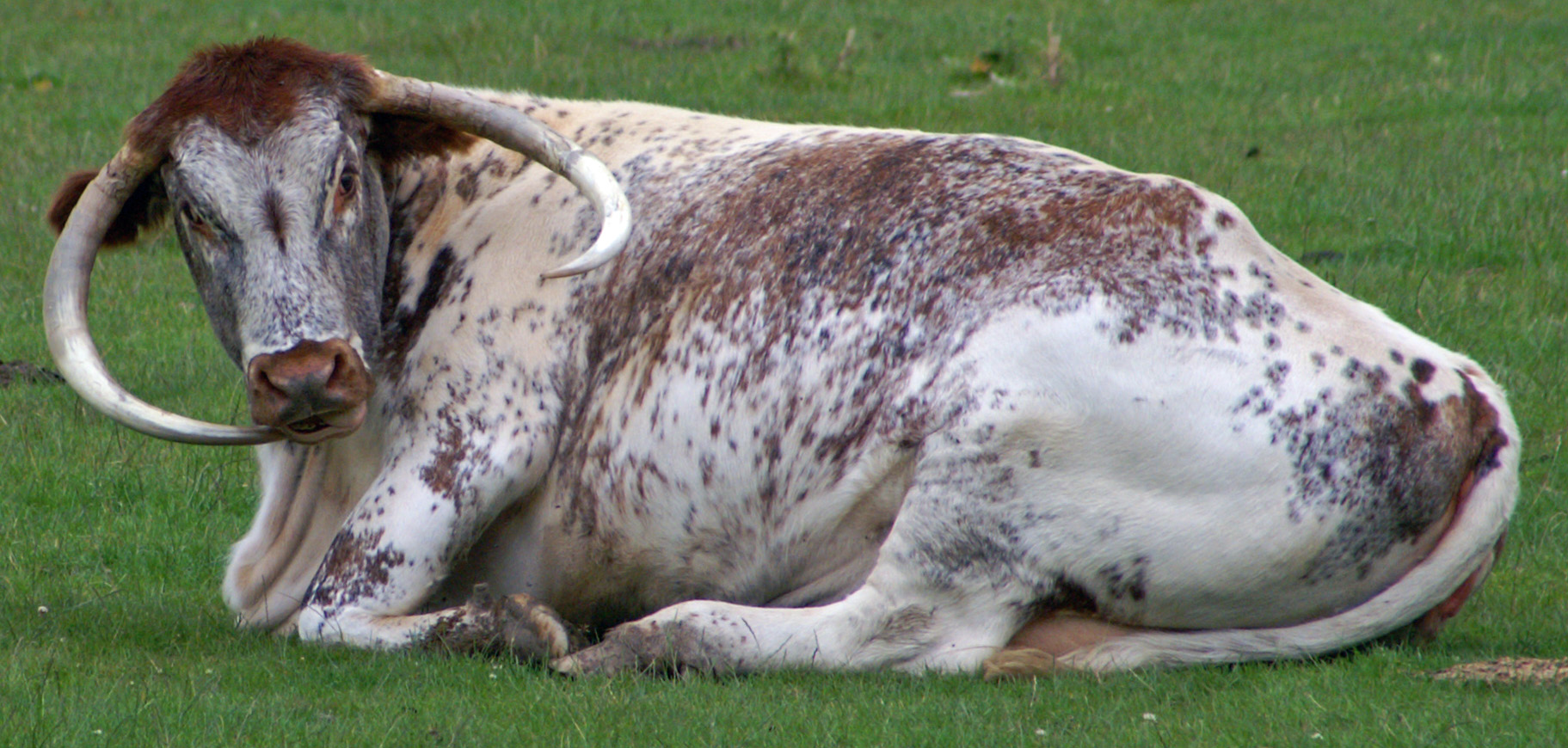 Longhorn cow.